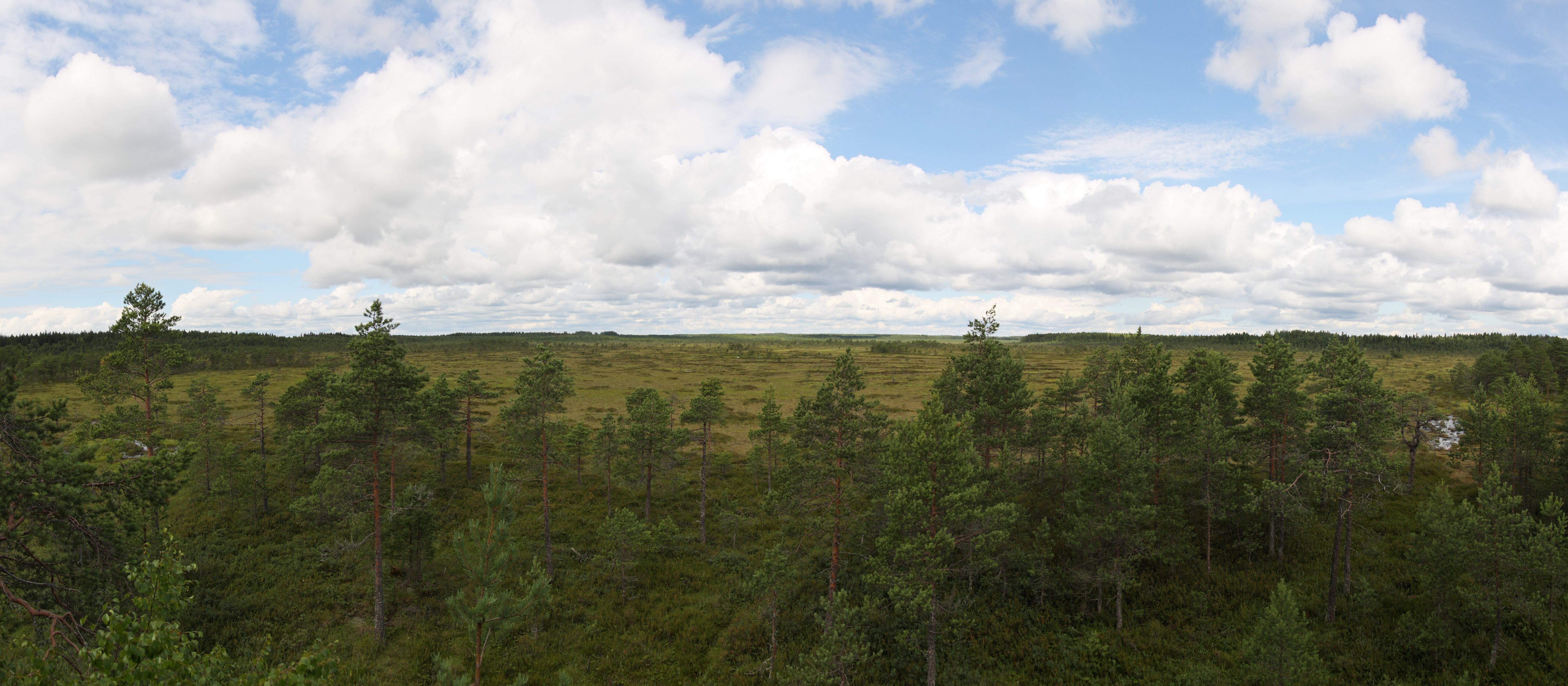 Panorama over the swamp Vajosuo in Kurjenrahka National Park, Finland.